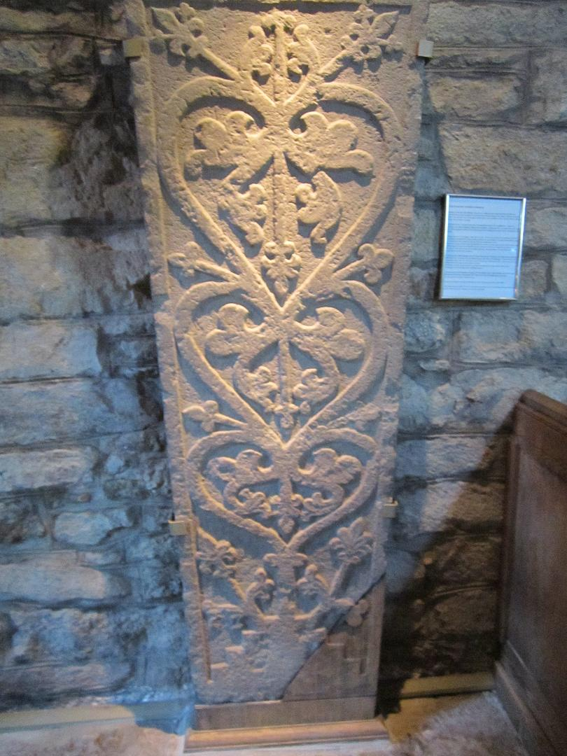 11th century artwork "Liljesten" on stone inside Husaby ChurchPlace: Götene, Sweden